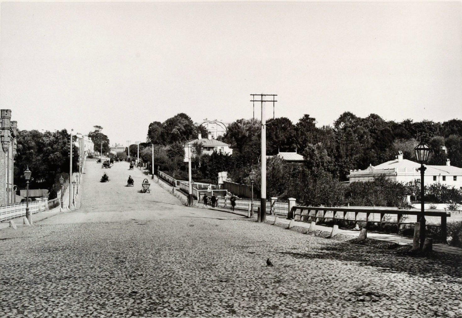 Plate 18: View of Garden Ring north of the Yauza River bridge.